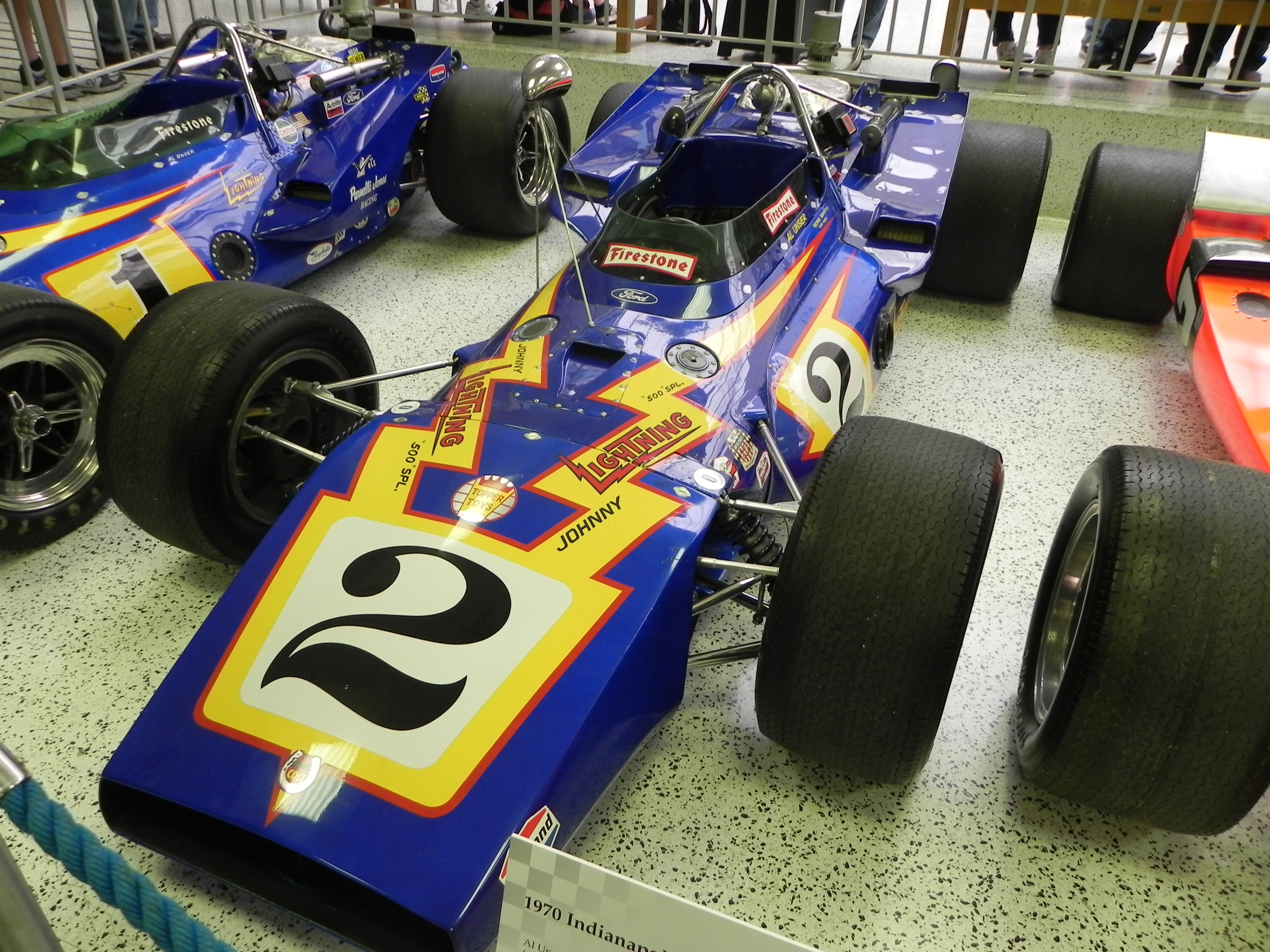 Image of the winning car of the 1970 Indianapolis 500 (Al Unser, Sr.). Photo was taken at the Indianapolis Motor Speedway Hall of Fame Museum, during the month of May 2011, at the 100th Anniversary "Ultimate Indianapolis 500 Winning Car Collection."